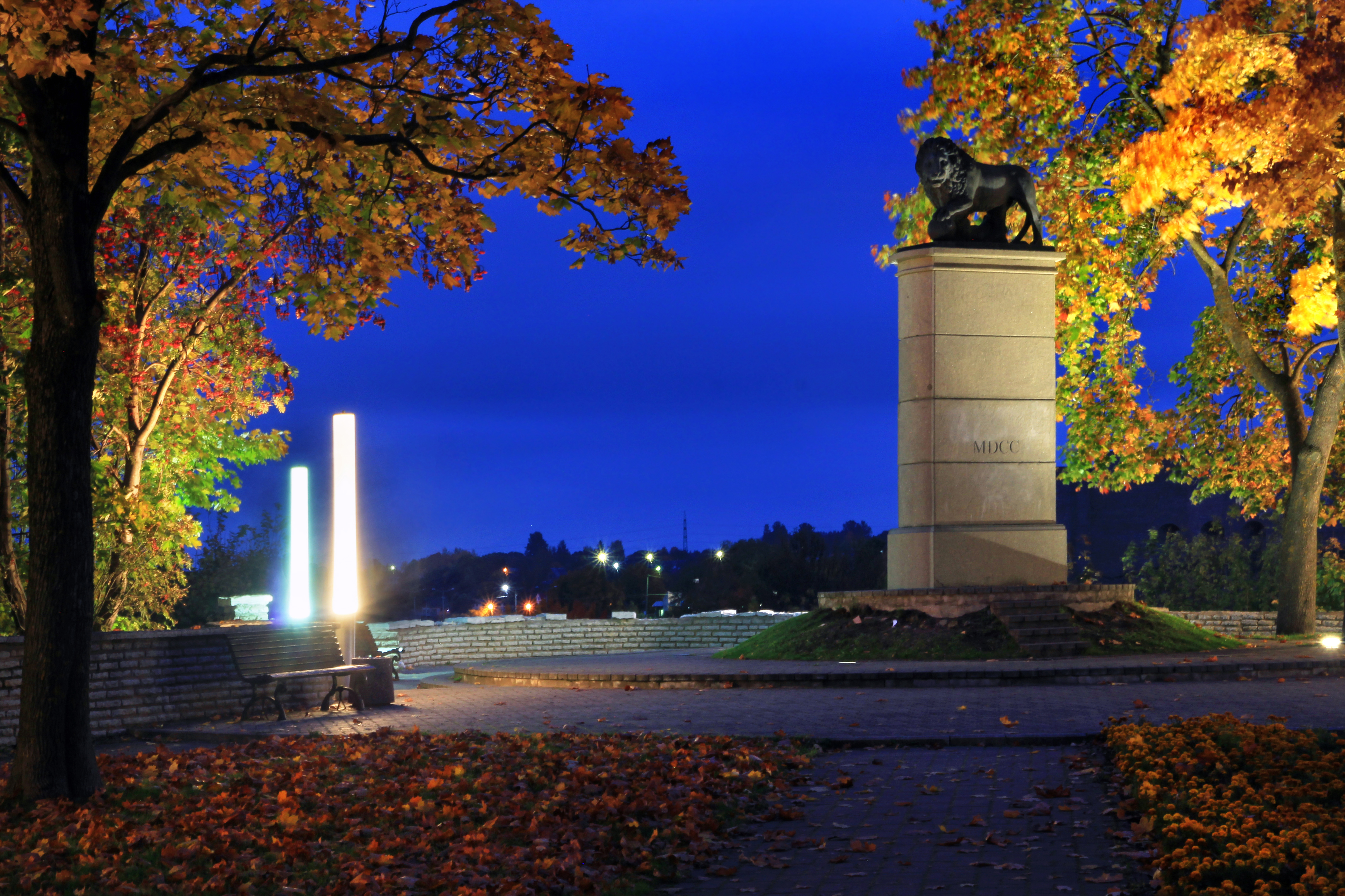 Swedish Lion monument in Narva, Estonia